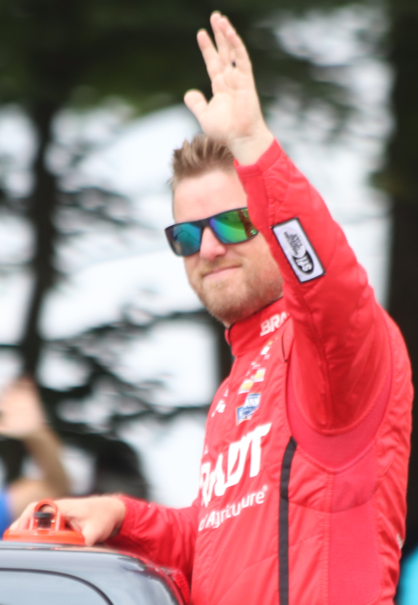 NASCAR Xfinity Series driver Justin Allgaier waves to fans before winning the 2018 Road America race.